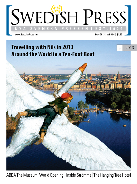 Sample cover showing Nils Holgersson riding on a goose across Sweden